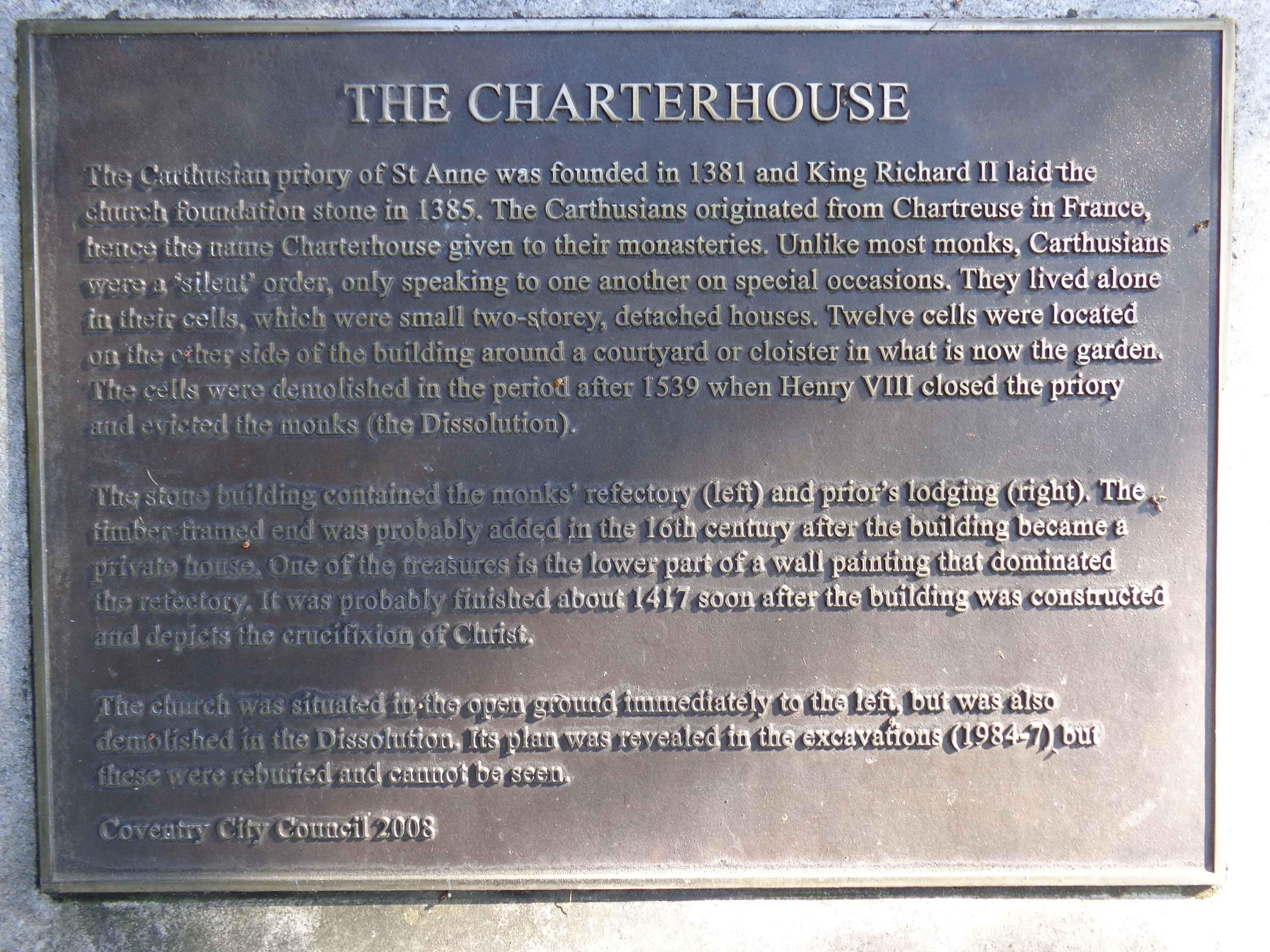 Charterhouse St. Anne's Informations, Coventry